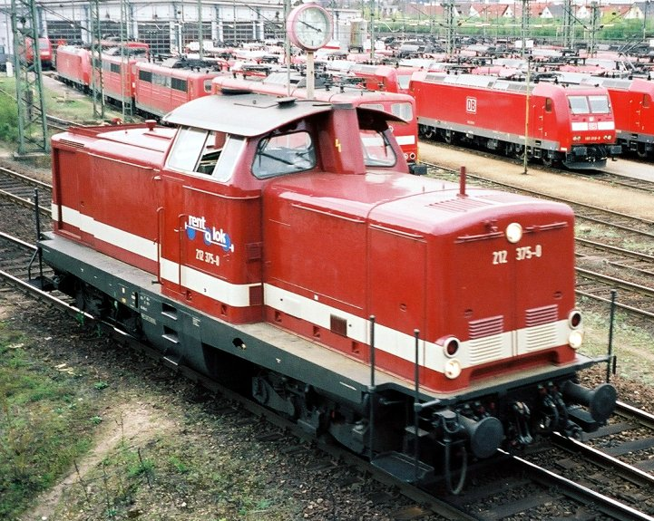 A german class 212 diesel loco in Mannheim, germany My own photo from april 2004